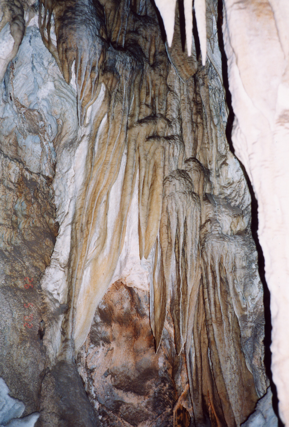 Mercer cave, Murphys, California, USA My own photo. Taken May 26, 2002.